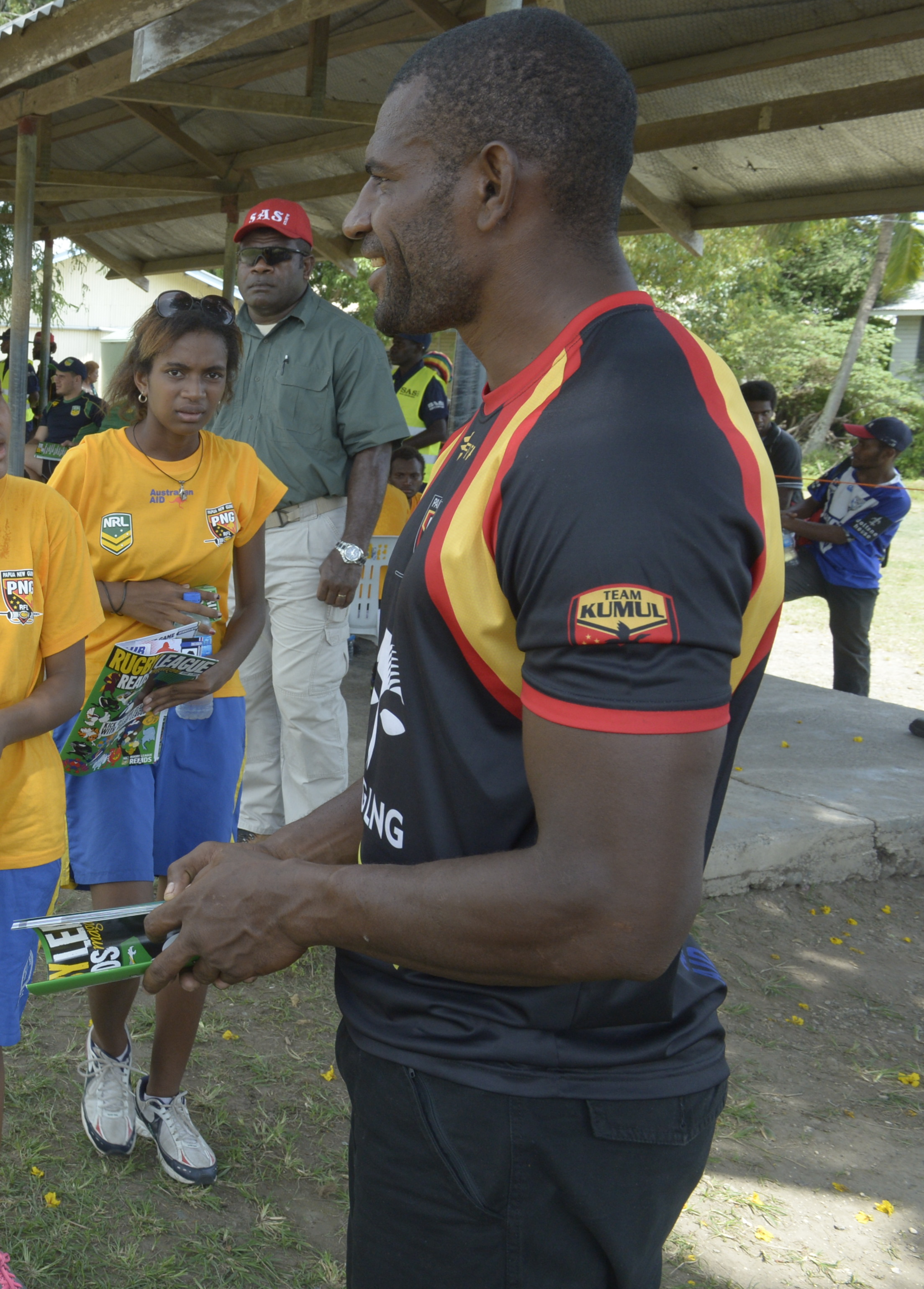 Children and players from both Prime Minister’s XIII teams at a coaching clinic at Kokopo Secondary School read rugby league-themed books that help improve literacy. Reading materials will be an important part of the Rugby League in Schools Pilot Program. Photo: PNG Rugby Football League